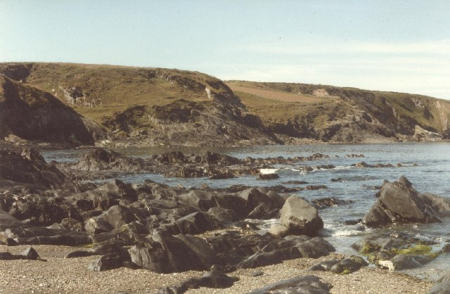 Abereiddy rocks. Just south of the black sands of Abereiddy beach. Looking west.